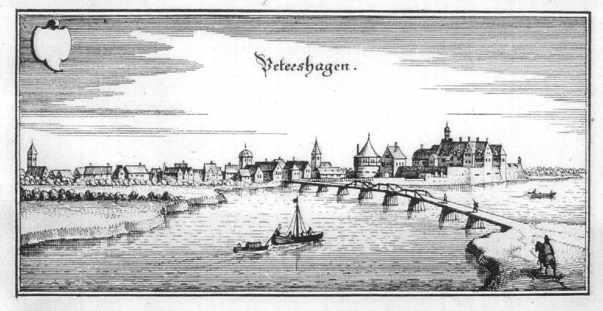 This is a scan of the historical document